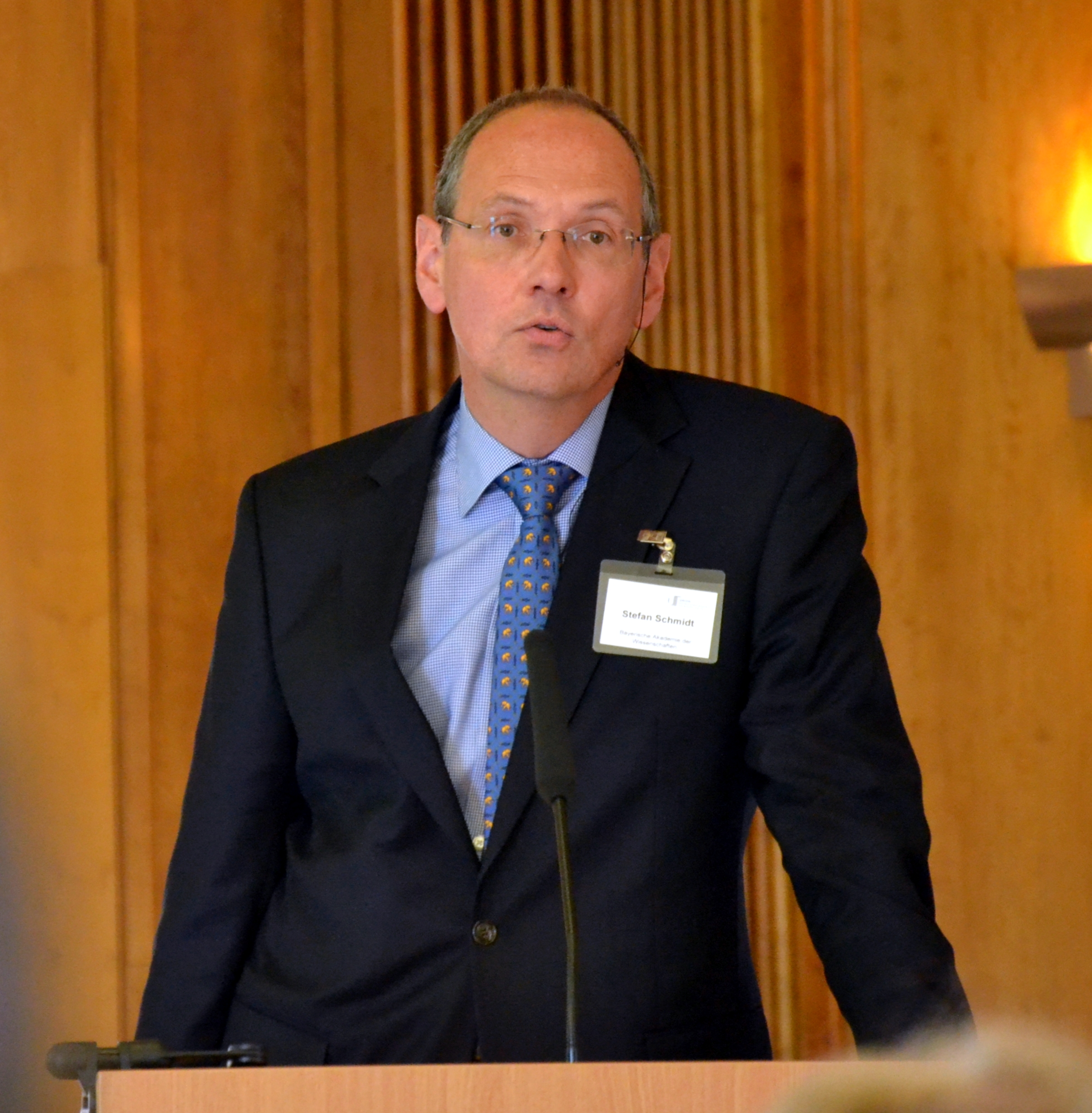 Academies day 2015 at the Berlin-Brandenburg Academy of Science in Berlin; Theme: "Old world today: Perspectives and threats". Image:Classical Archaeologist Professor Stefan Schmidt, Redaktor of the Corpus Vasorum Antiquorum, section Germany.